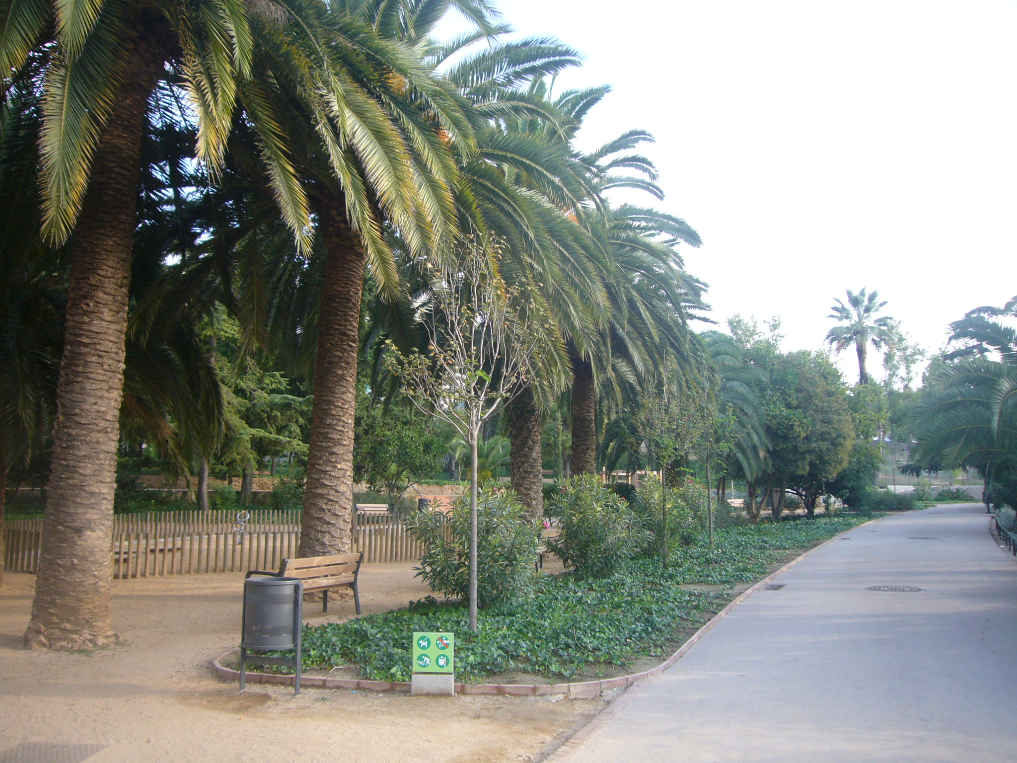 Parc de les Aigües (Barcelona)